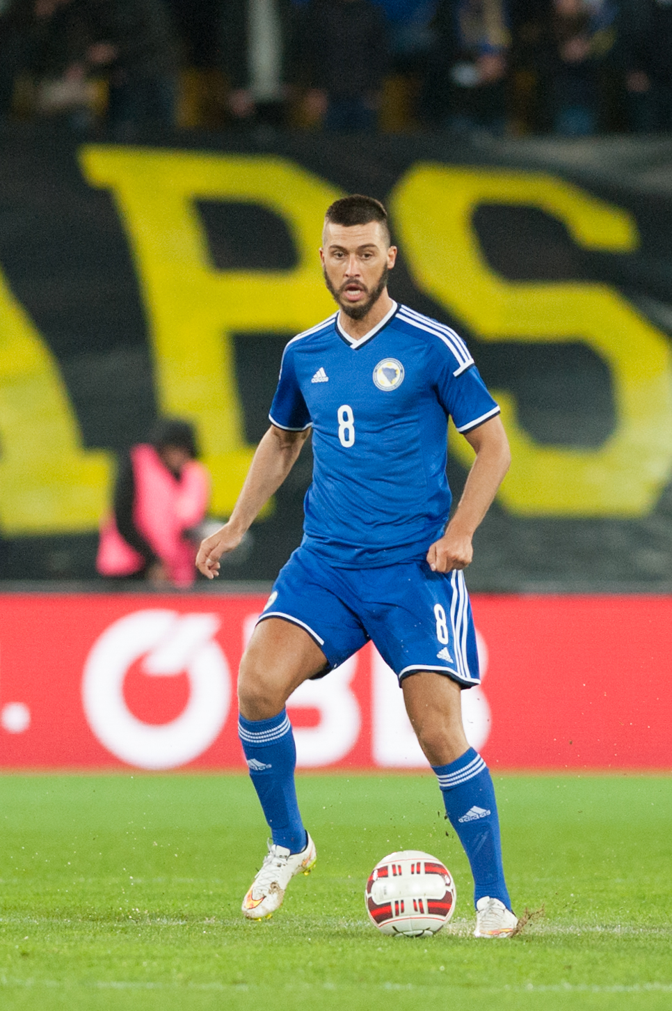 International friendly Austria vs. Bosnia and Herzegovina, 2015-03-31, Vienna